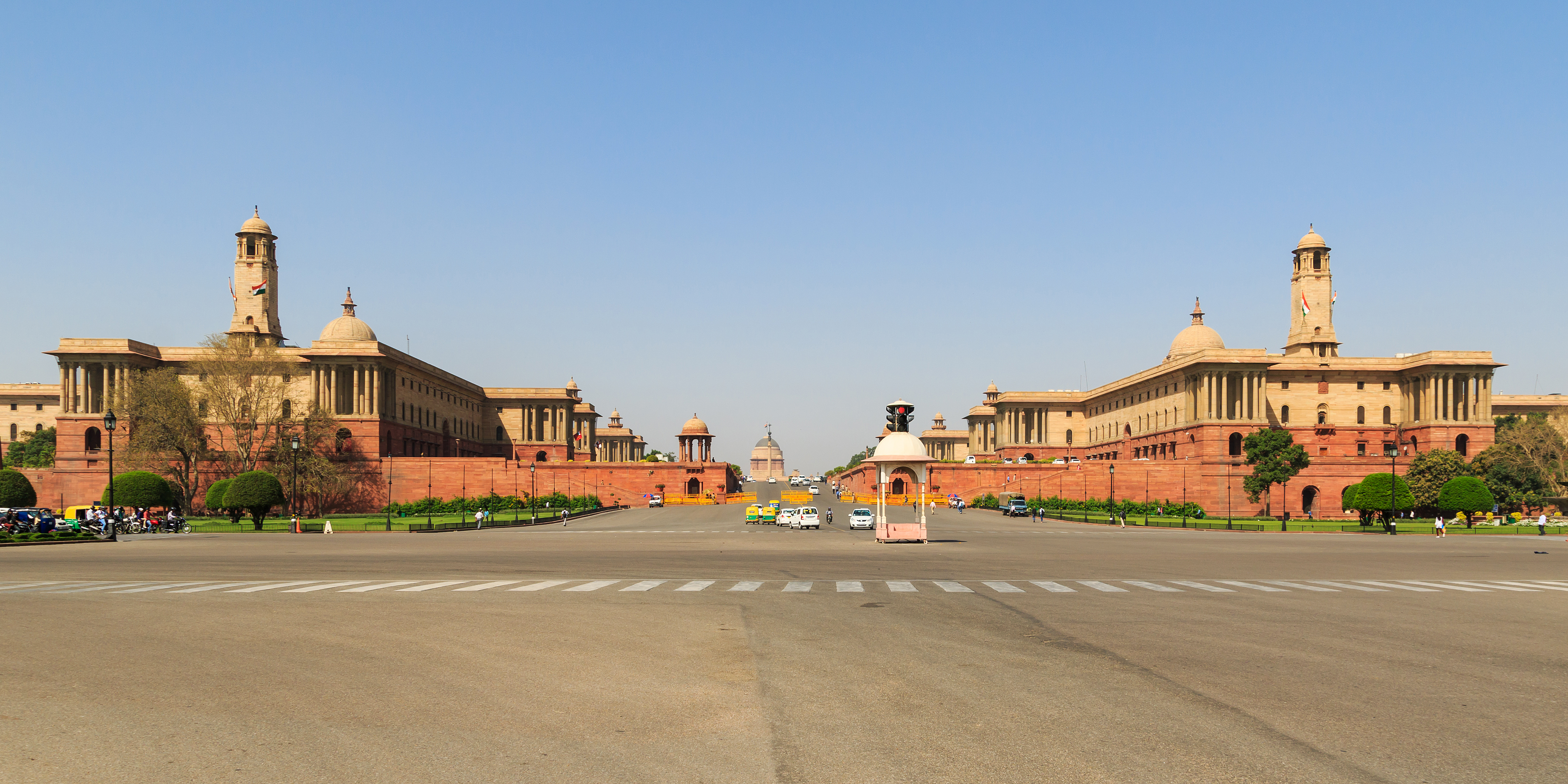 Ensemble of Government buildings on Rajpath in New Delhi, India